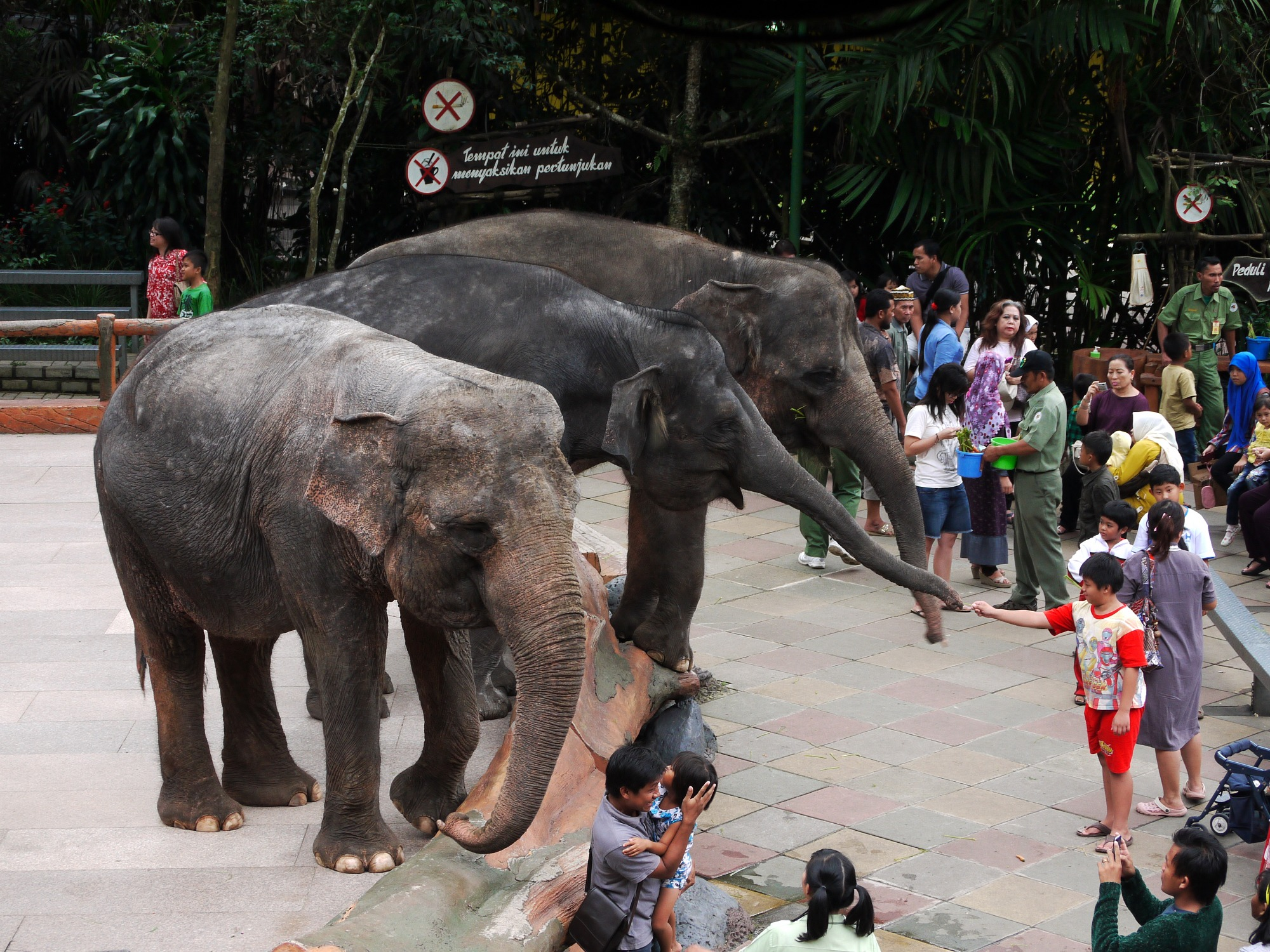 Three elephants in a show in Taman Safari, Bogor, Indonesia.